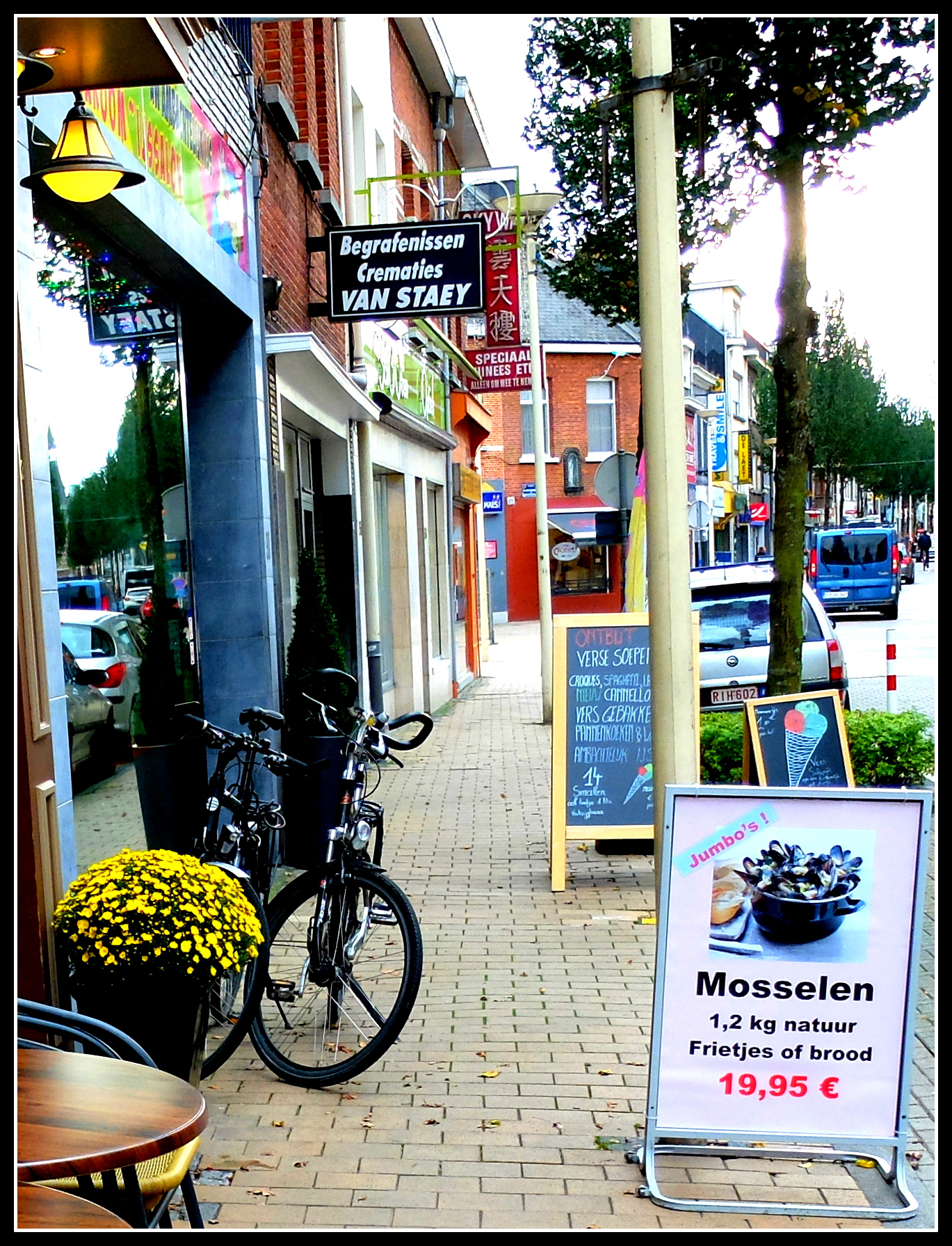 happy shopping